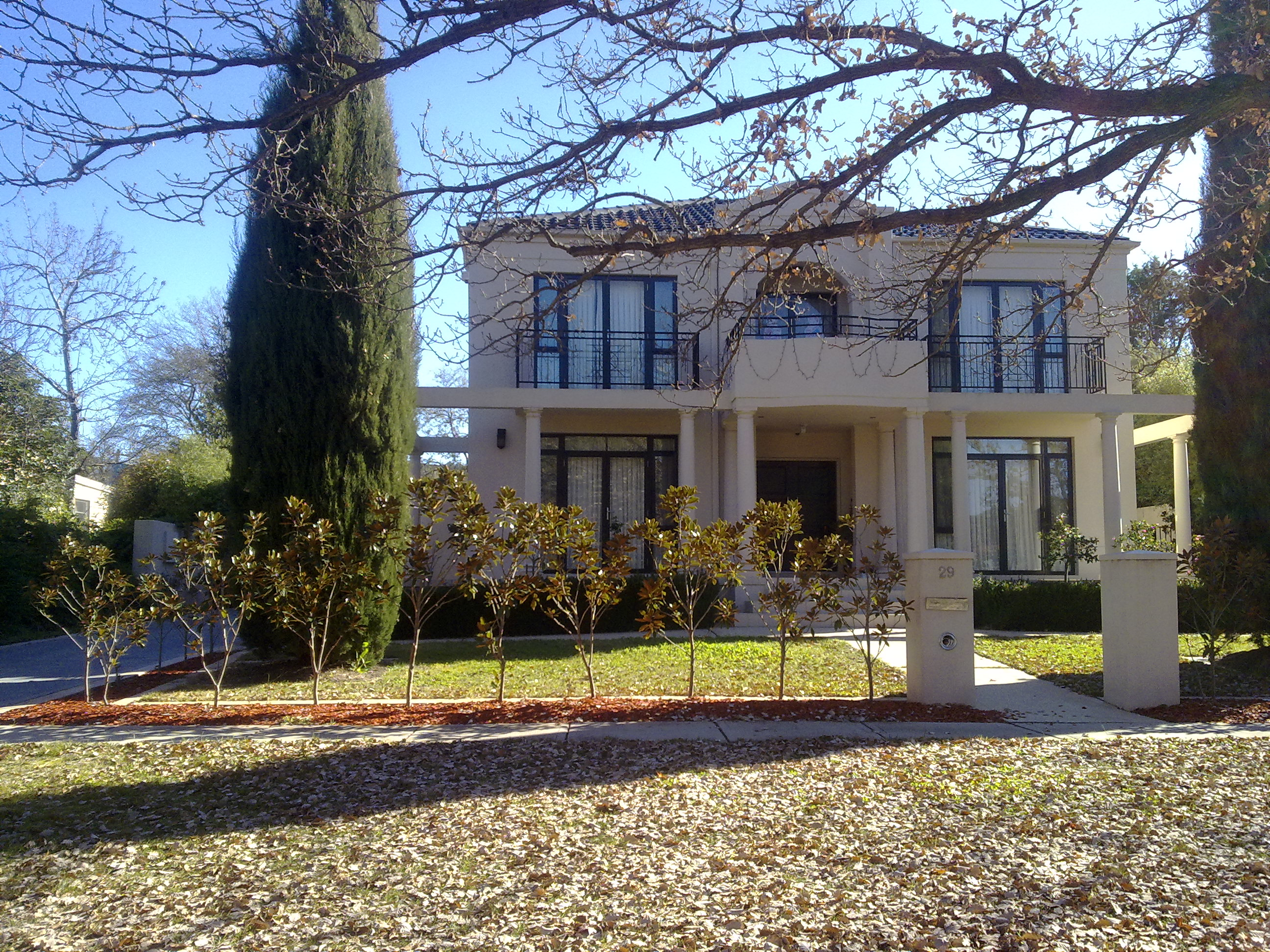 Recently constructed (rel. 2010) home in Froggart Street, south Turner.